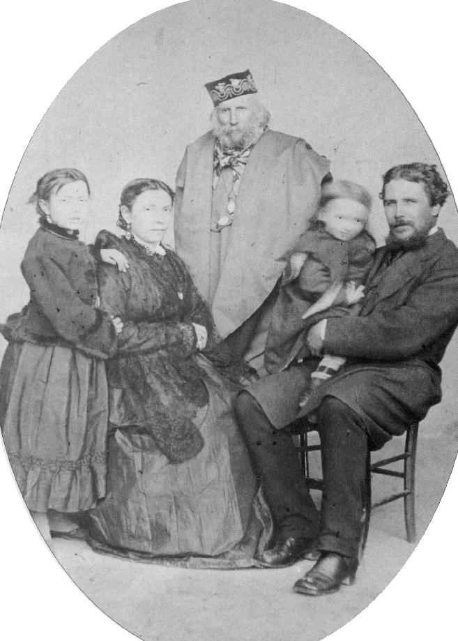 Figure 1.--Here we have one of the most important protagonist of the Italian Risorgimento: Giuseppe Garibaldi (1807-1882). The photo was taken about 1875. Left to right we can see: daughter Clelia, wife Francesca Armosino, Giuseppe Garibaldi, little grandchild Manlio and son Menotti.